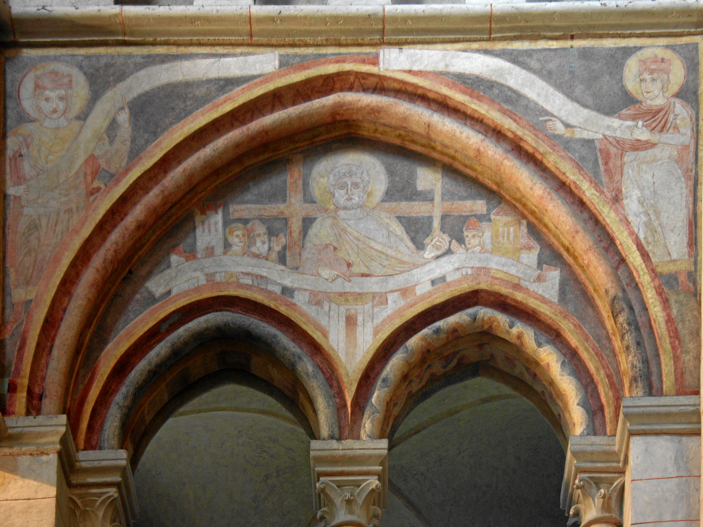 Limburg, Germany. Catholic cathedral Saint George. Fresco above northern gallery in the nave